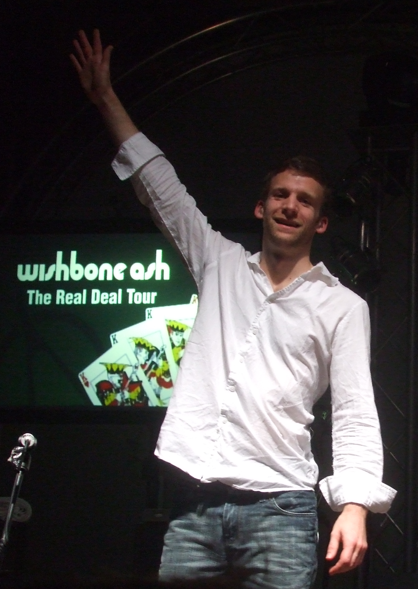 Joe Crabtree, On Tour with Wishbone Ash, 09-01-30, Paderborn Germany